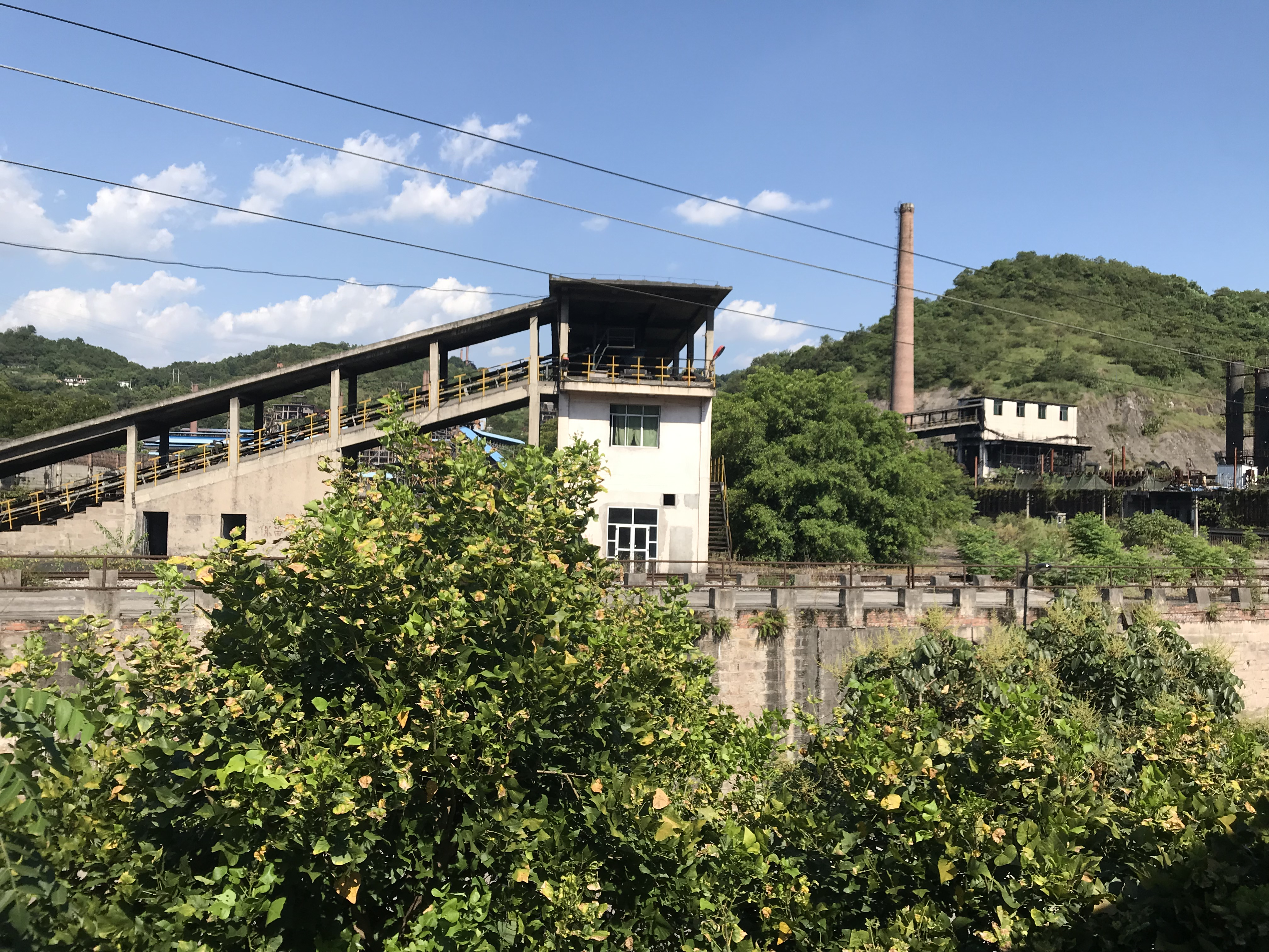 201908 Xiaba Cement Plant